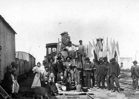 Workers of Santa Fe Provincial Railway posing with a locomotive.